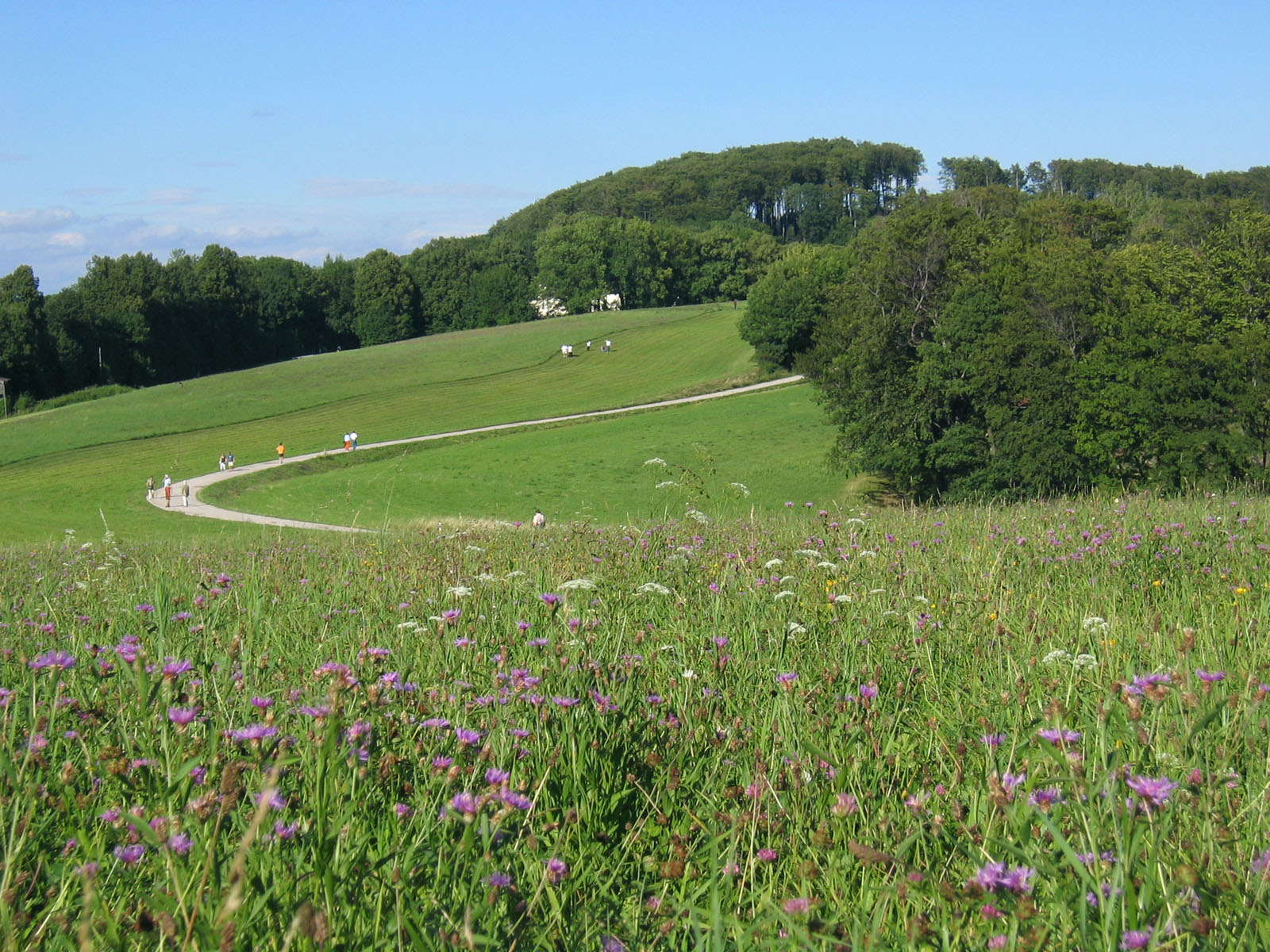 Sophienalpe in the west of Wien (Vienna, Austria)